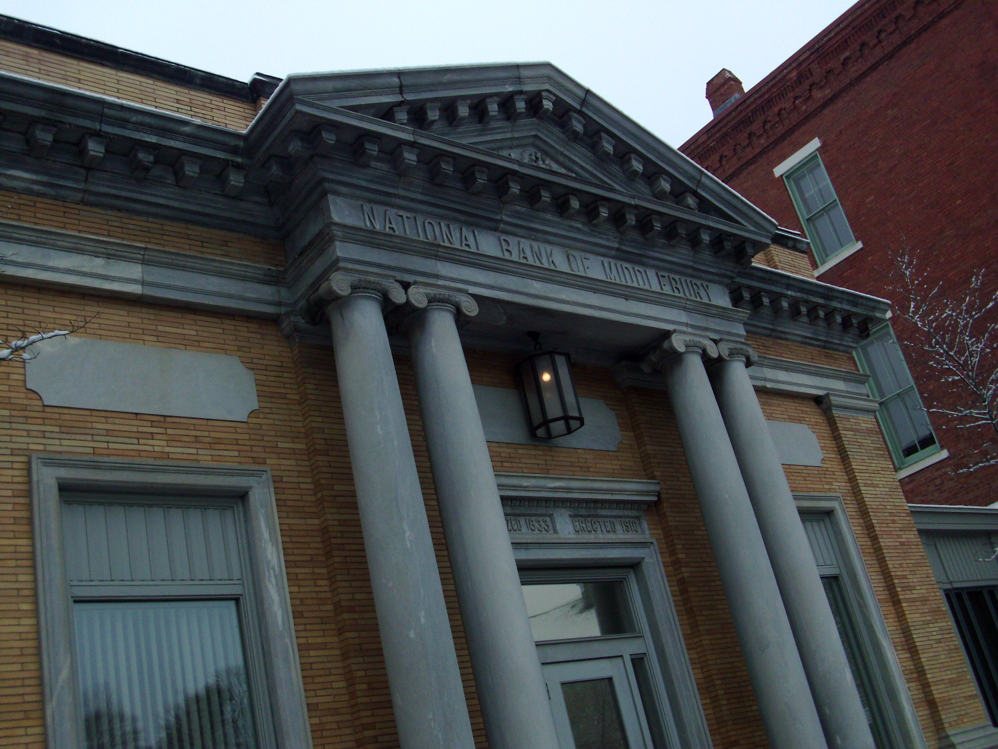 The National Bank of Middlebury on Main Street in Middlebury, Vermont, United States.